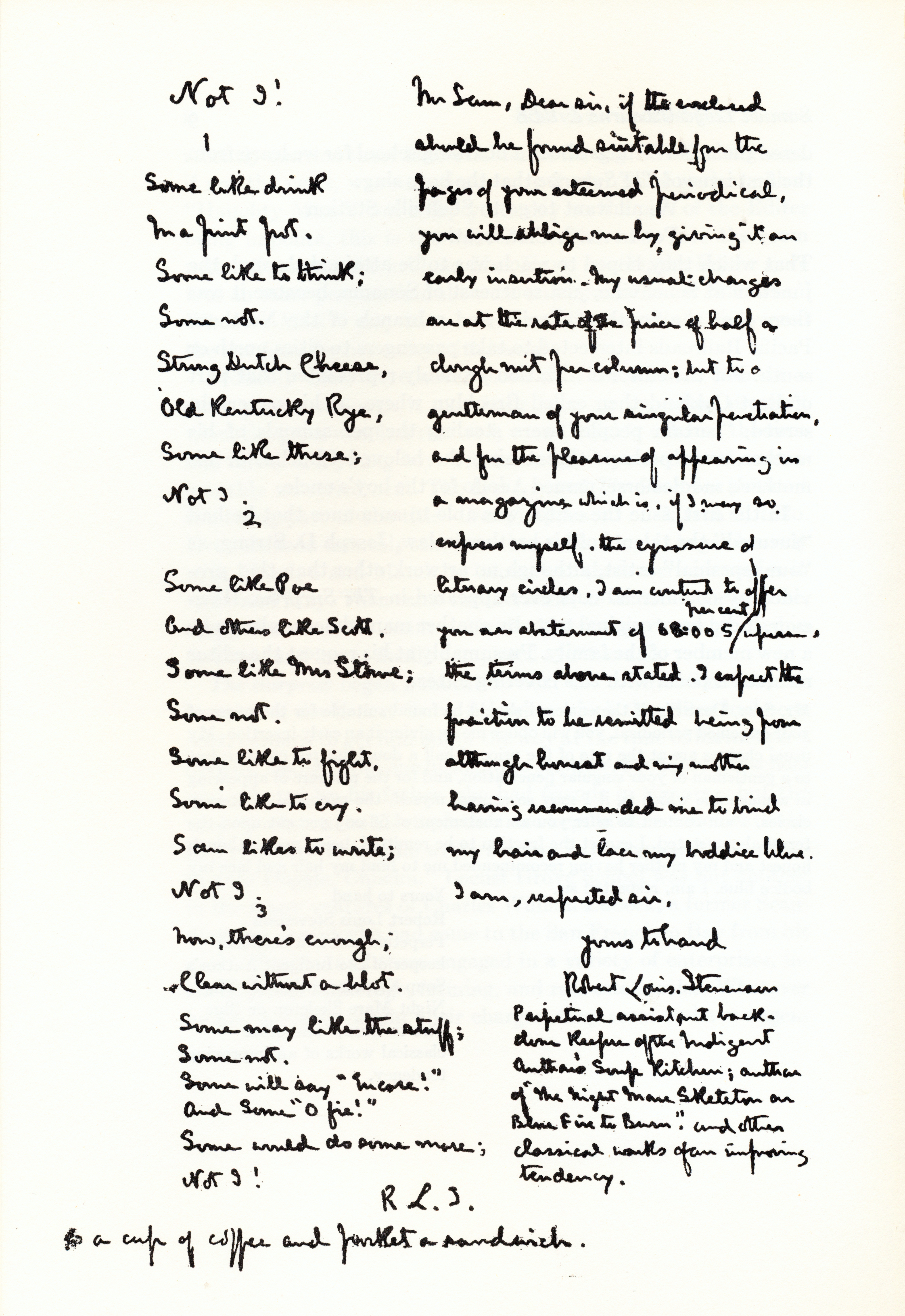 Autograph letter from Robert Louis Stevenson to Lloyd Osbourne. Original from the Huntington Library